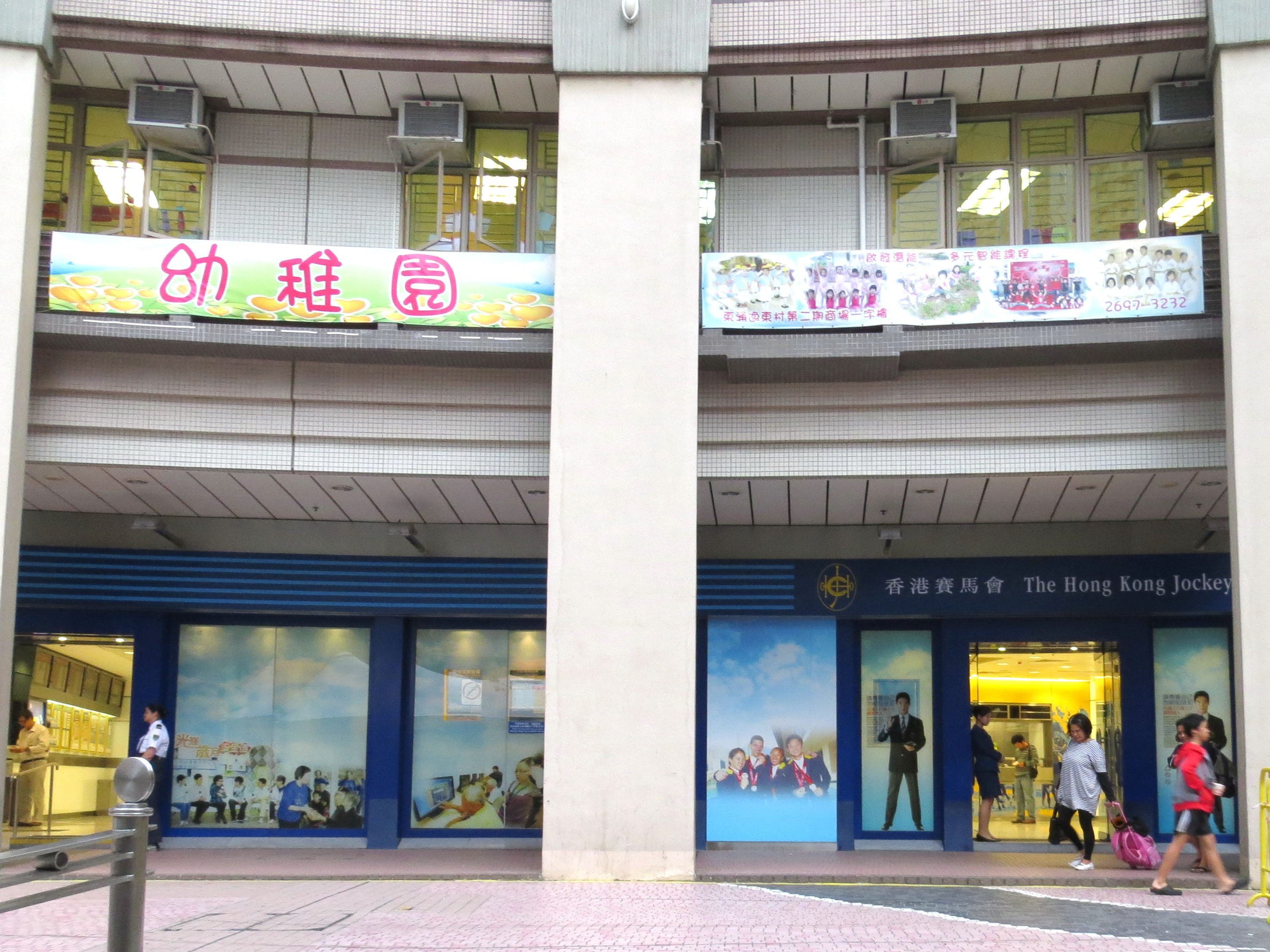 The Hong Kong Jockey Club off-course betting branch at Yat Tung Shopping Centre, Tung Chung, Lantau Island, Hong Kong.